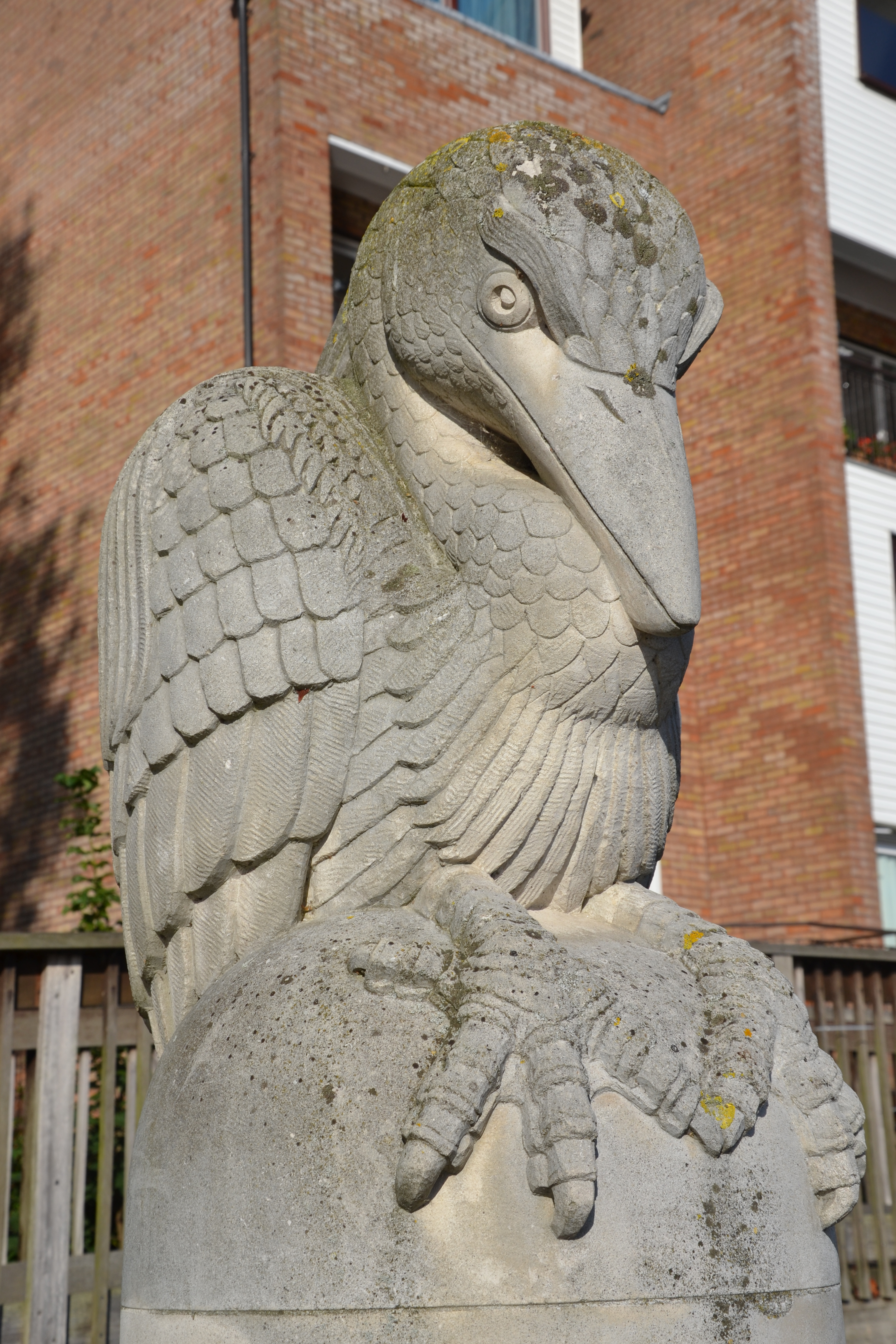 At confluence of River Colne with River Thames, near Staines Bridge